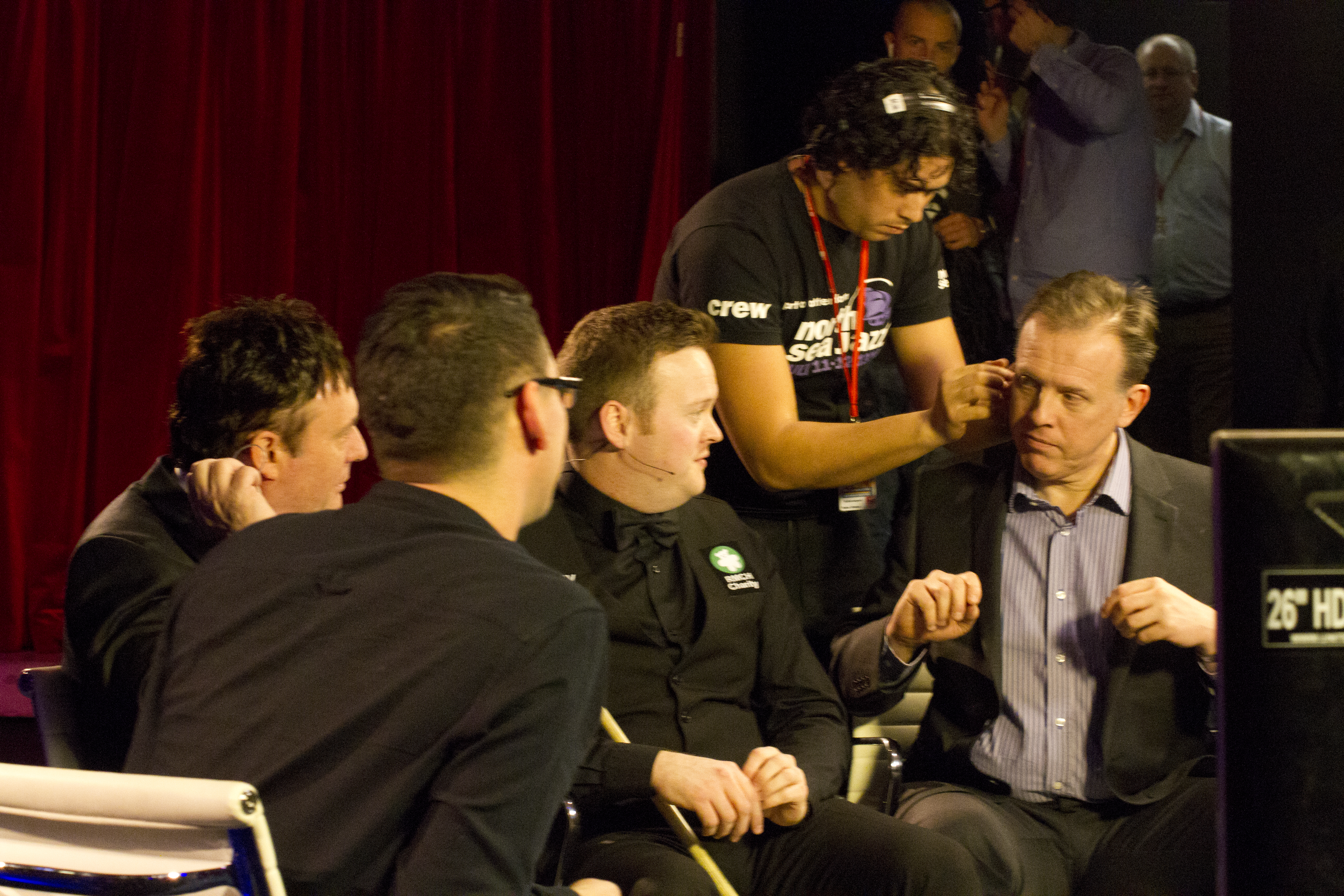 Miscellaneous photos of the Venue, Interviews, TV-Shows etc. Eurosport-UK commentatores Neal Fould and Jimmy White in an interview with Shaun Murphy after his victory against Mark Allen.